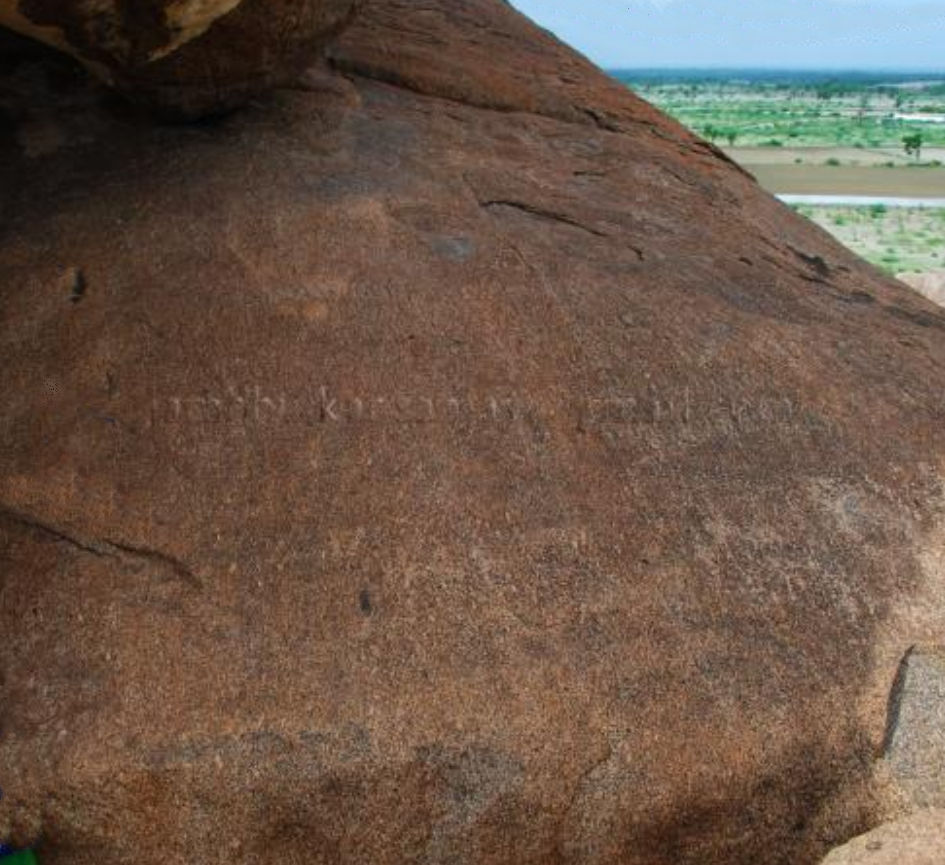 Pakilgundu Gavimath Ashoka Minor Edict Inscription